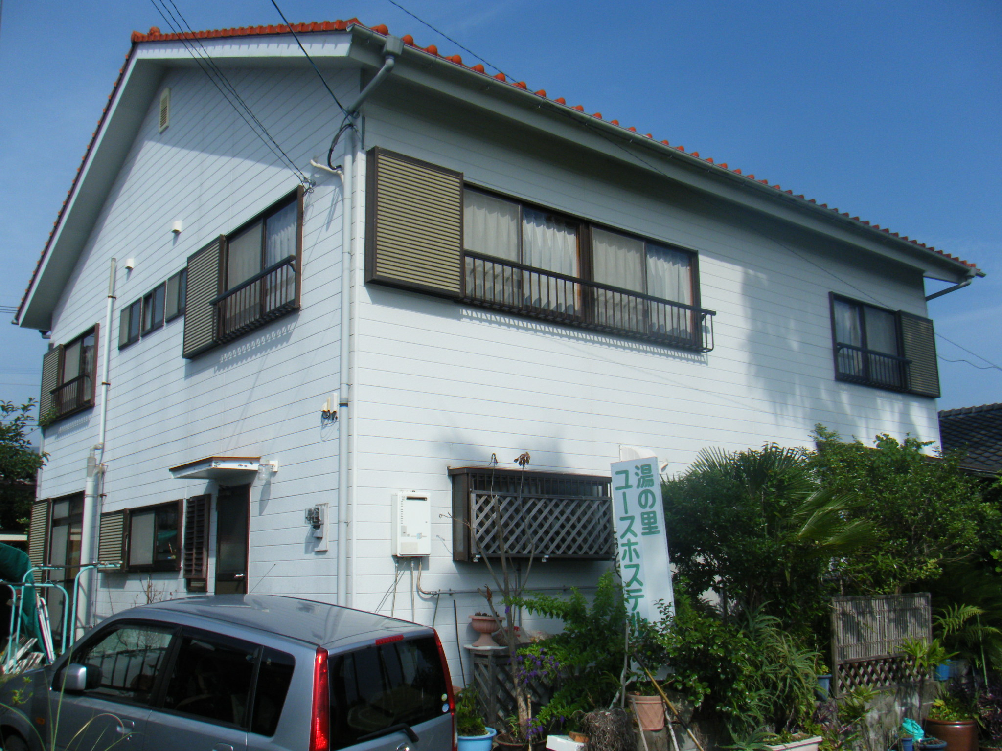 Yunosato.jpg